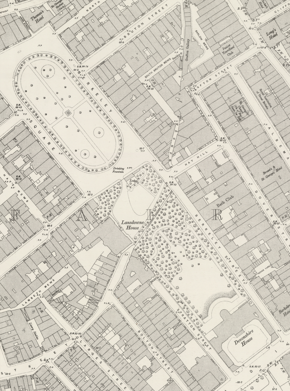 Lansdown House, Devonshire House and Berkeley Square, London.